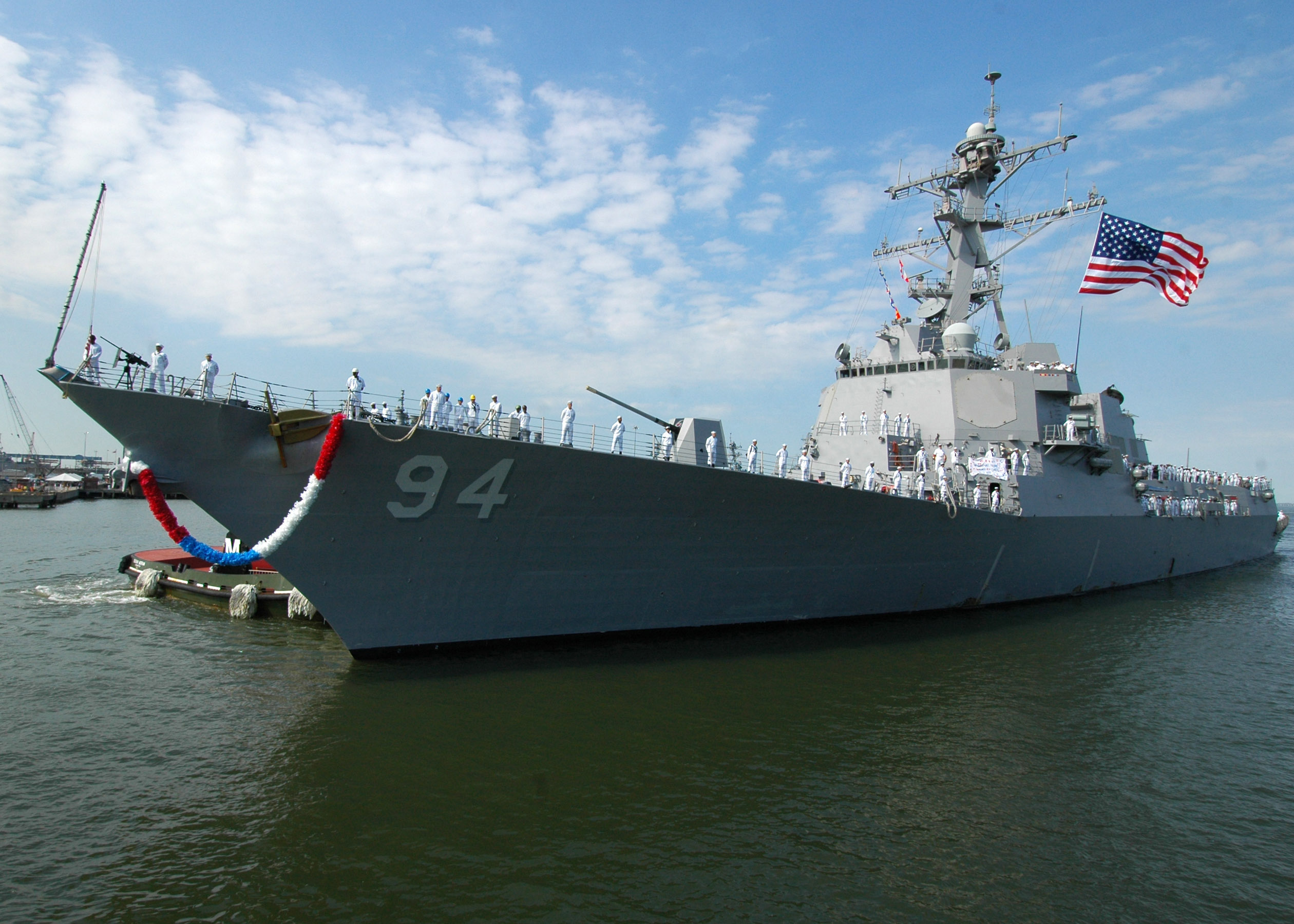 NORFOLK, Va. (July 3, 2007) – Guided-missile destroyer USS Nitze (DDG 94) pulls into port at Naval Station Norfolk after a six-month deployment as part of Bataan Expeditionary Strike Group (ESG). The ESG supported maritime operations and theater security cooperation efforts in the 5th and 6th Fleet areas of operation. U.S. Navy photo by Mass Communication Specialist 3rd Class Joshua T. Rodriguez (RELEASED)